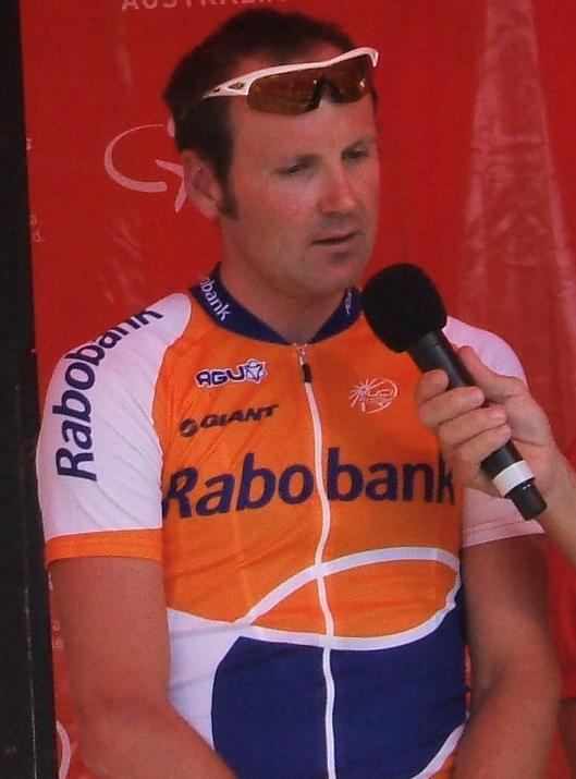 Named cyclist at the en:2009 Tour Down Under team presentation